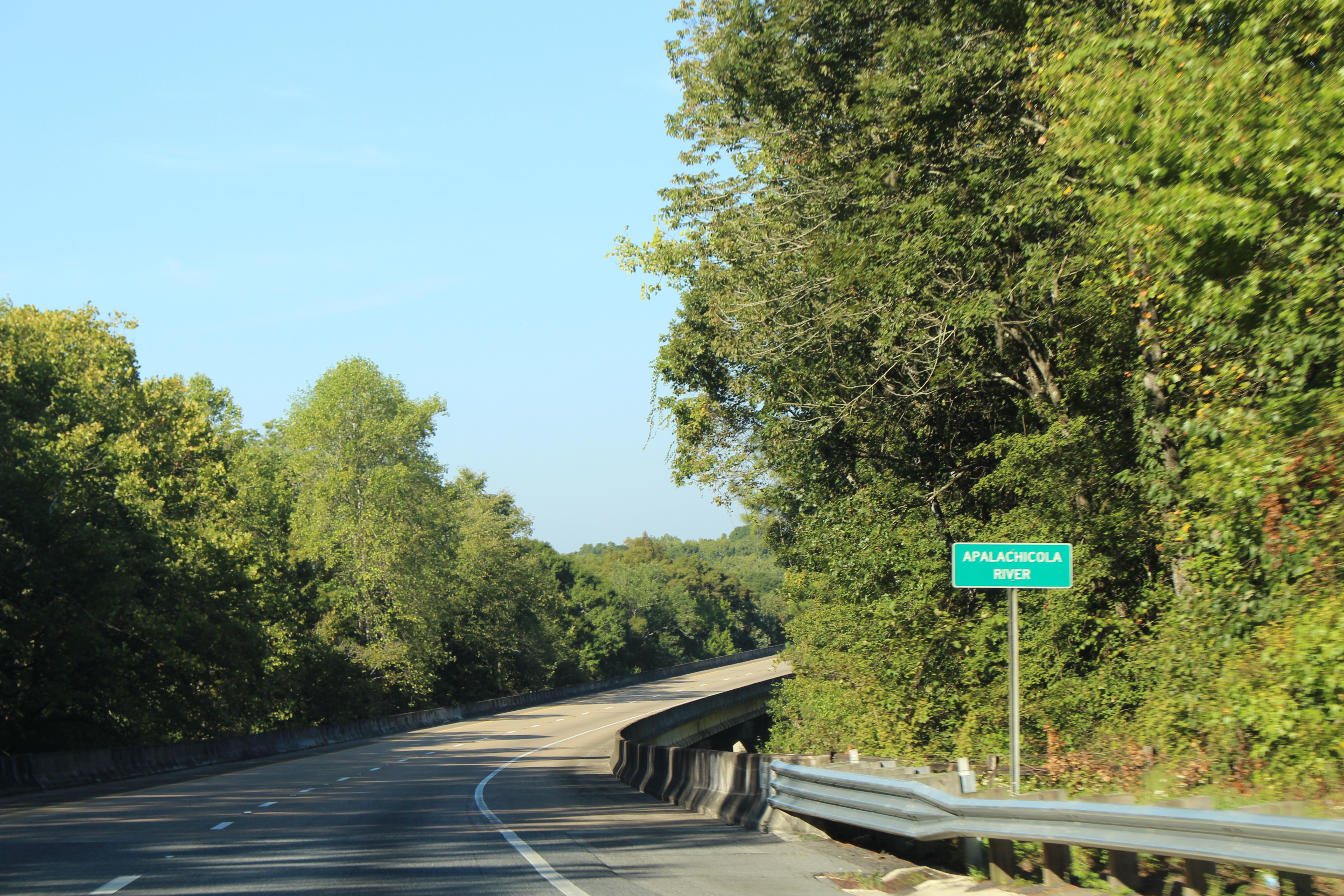 Florida I10wb Apalachicola River, Gadsden County, Florida